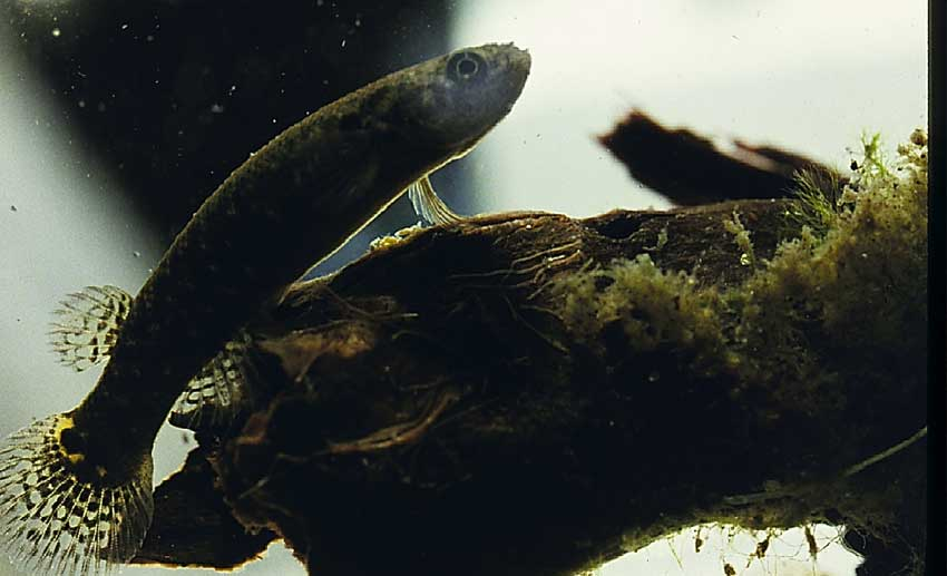 Mangrove Rivulus, Kryptolebias marmoratus (Poey, 1880). (Sometimes also listed as the synonym Rivulus marmoratus Poey, 1880.)